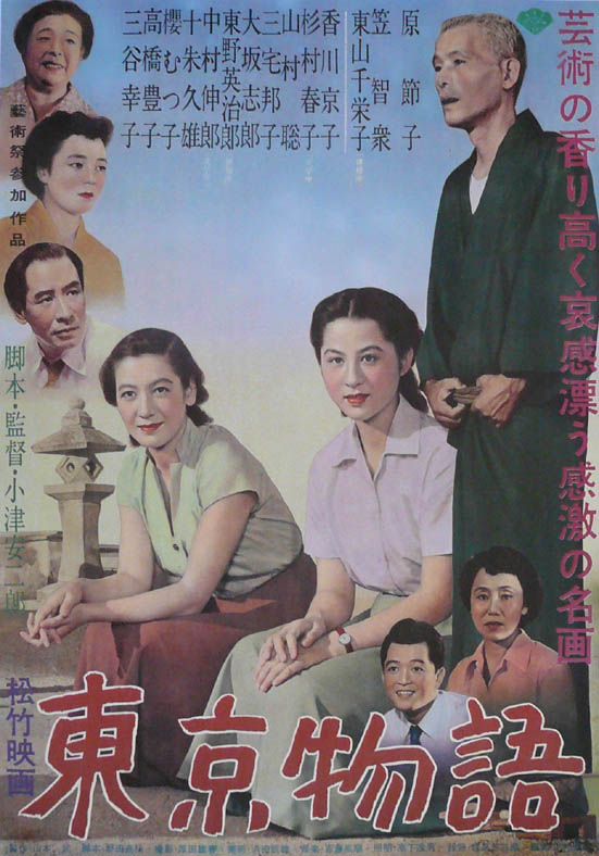 Movie poster for 1953 Japanese movie Tokyo Story (東京物語, Tokyo monogatari).